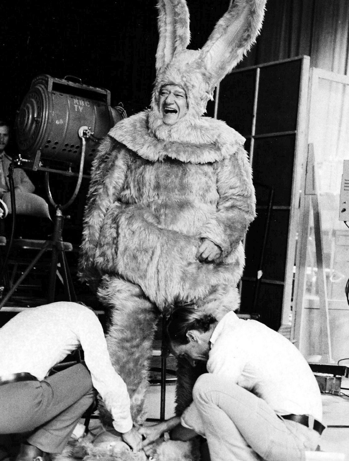 Photo of John Wayne being fitted in a giant bunny costume for Rowan and Martin's Laugh-In.